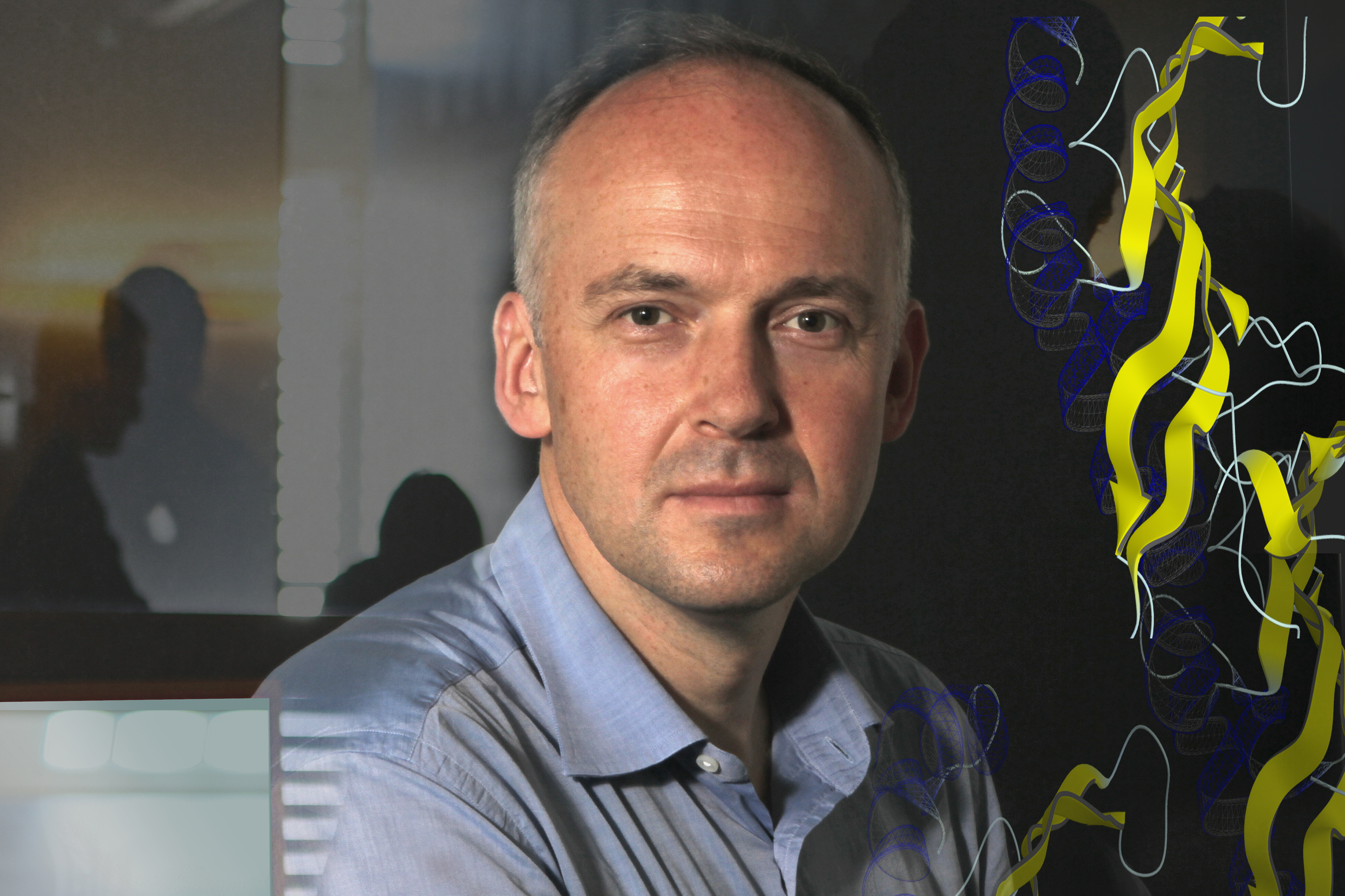 Professor Torsten Schwede, Biozentrum, University of Basel Switzerland